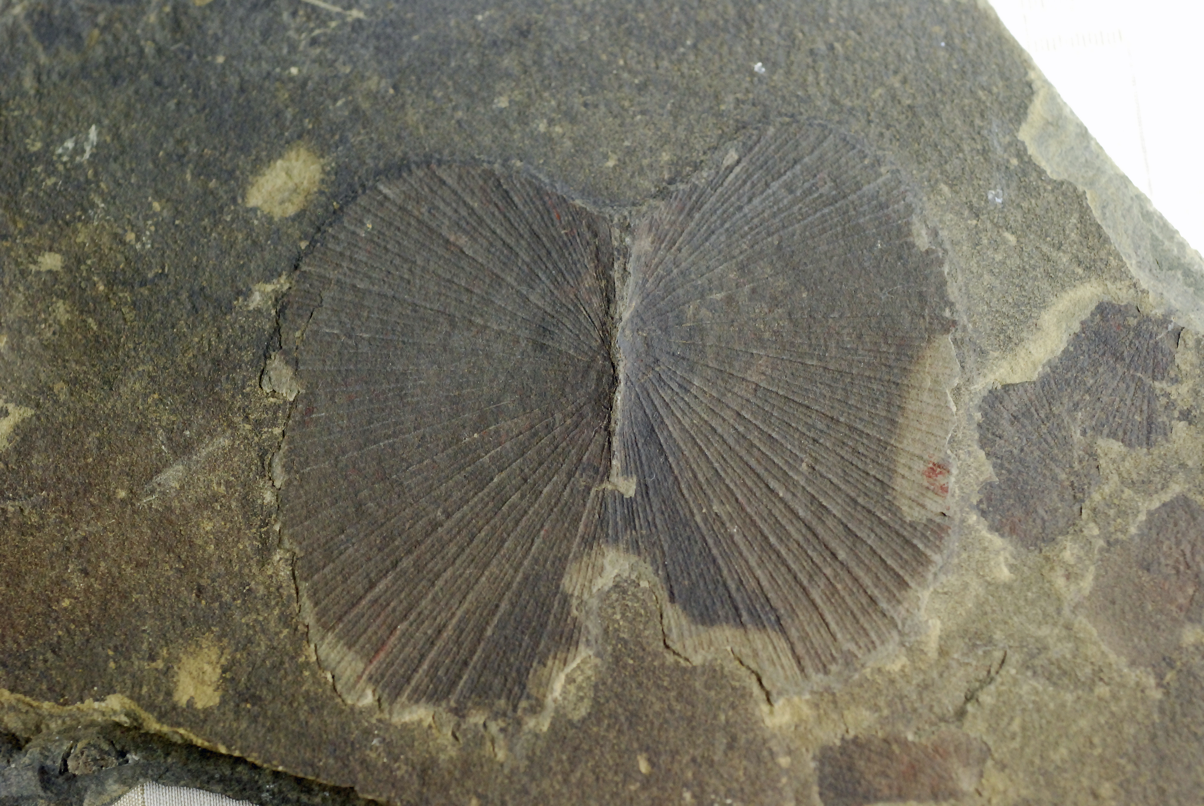 wq